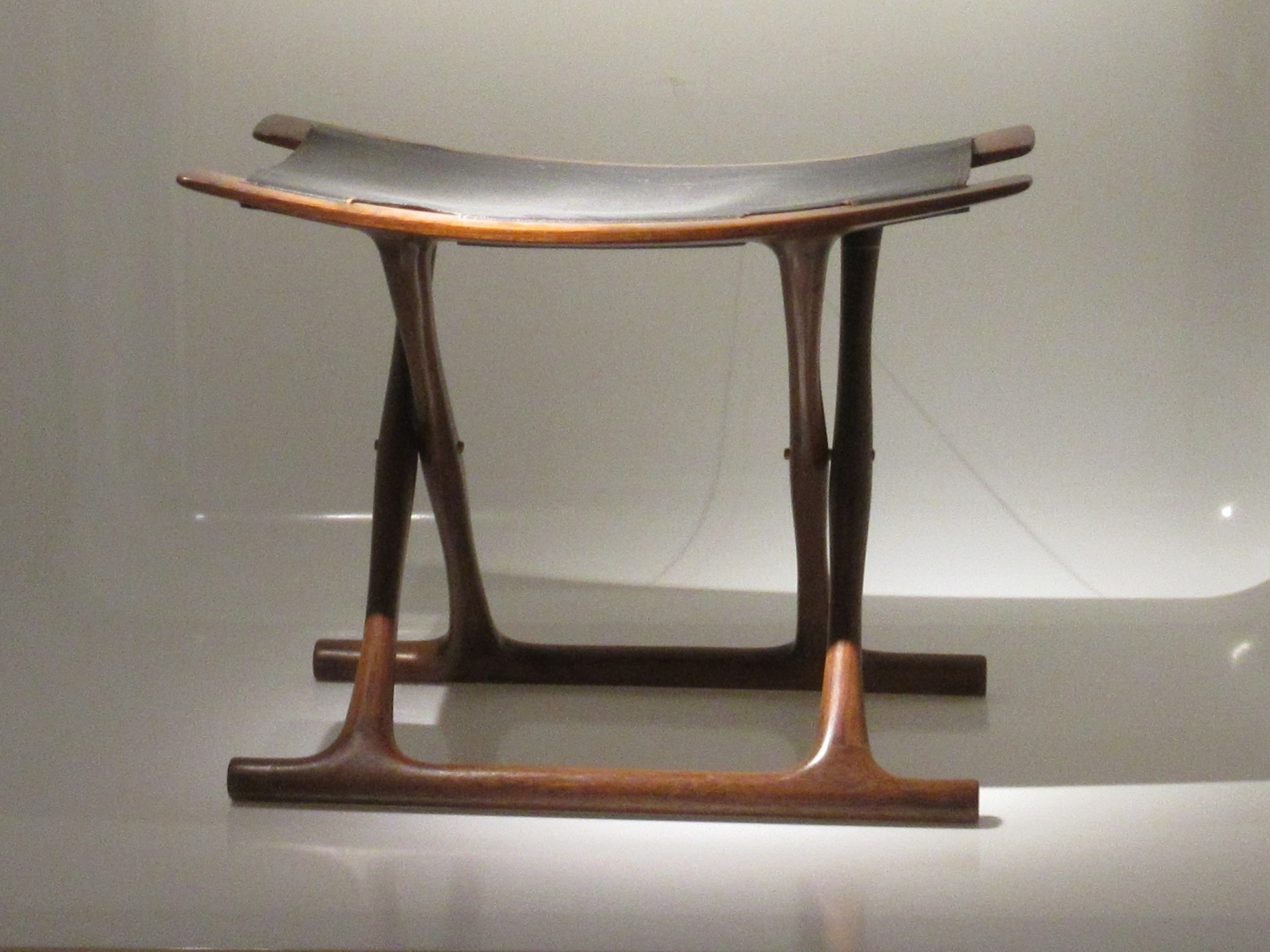 Ole Wanscher's Folding stool from 1957 on display in the Danish Design Museum in Copenhagen, Denmark